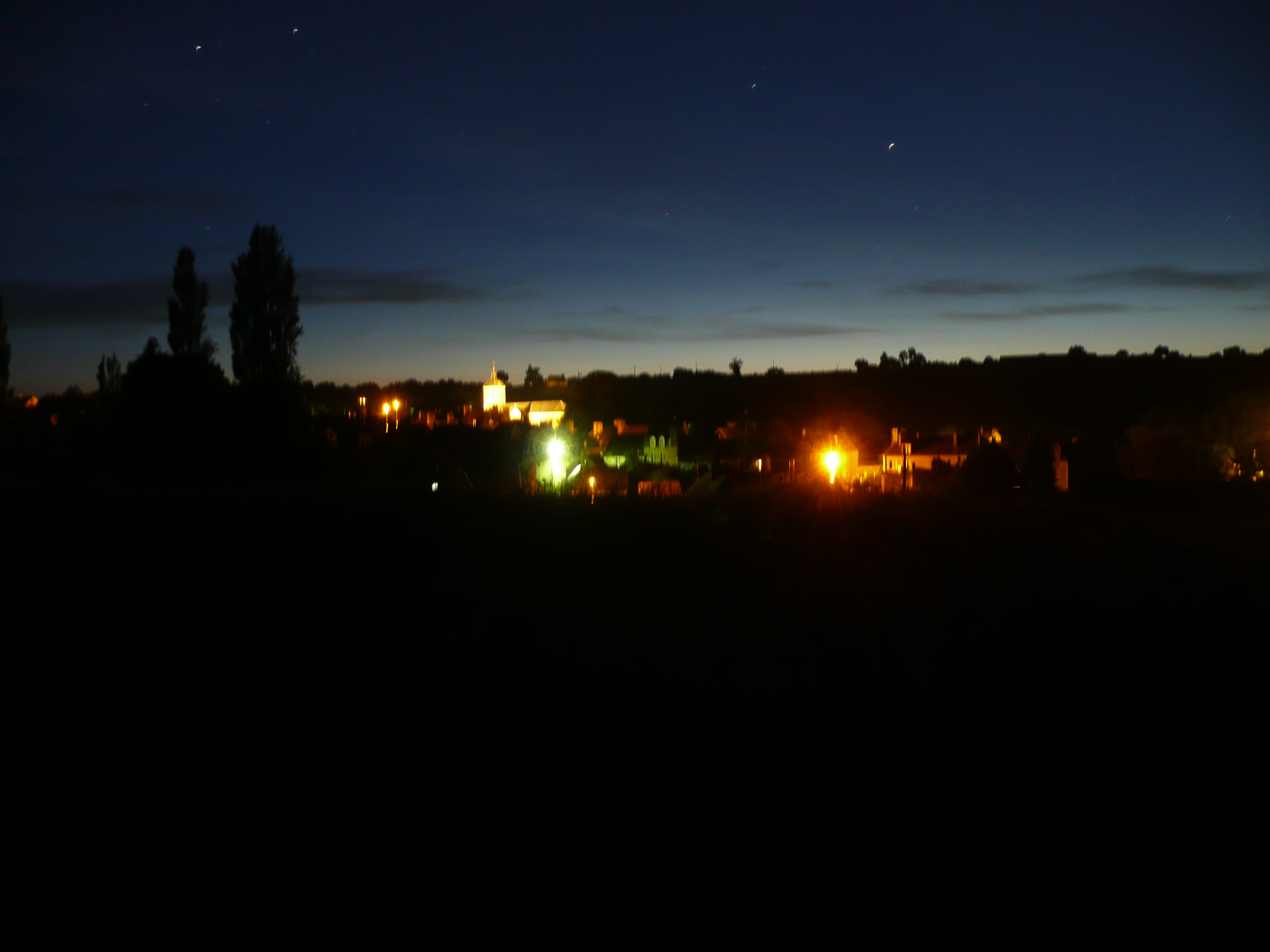 Pont-Farcy at night.